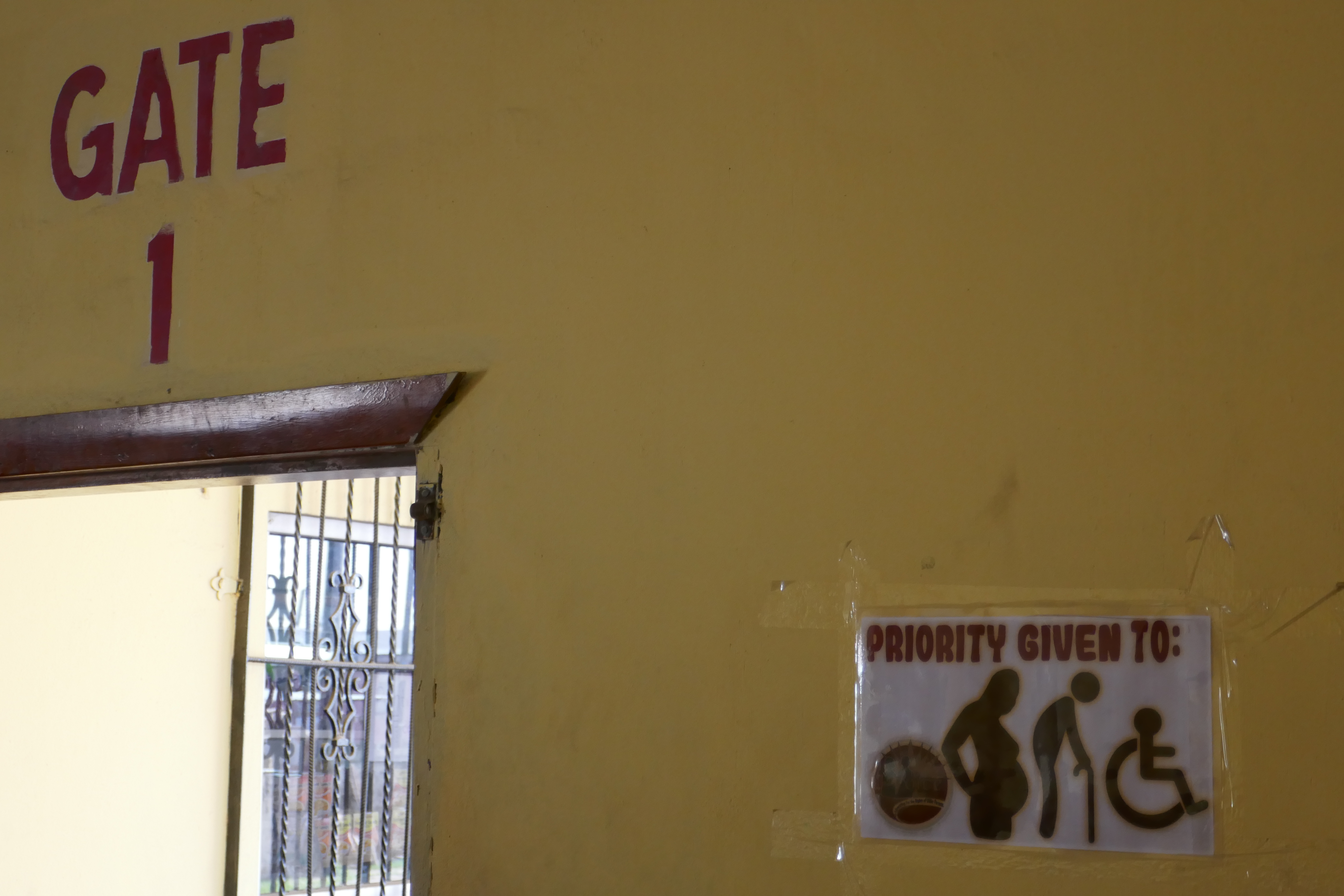 12/9, Big camera--Sign in the Dangriga bus station--"Give priority to old, disabled, and pregnant individuals"